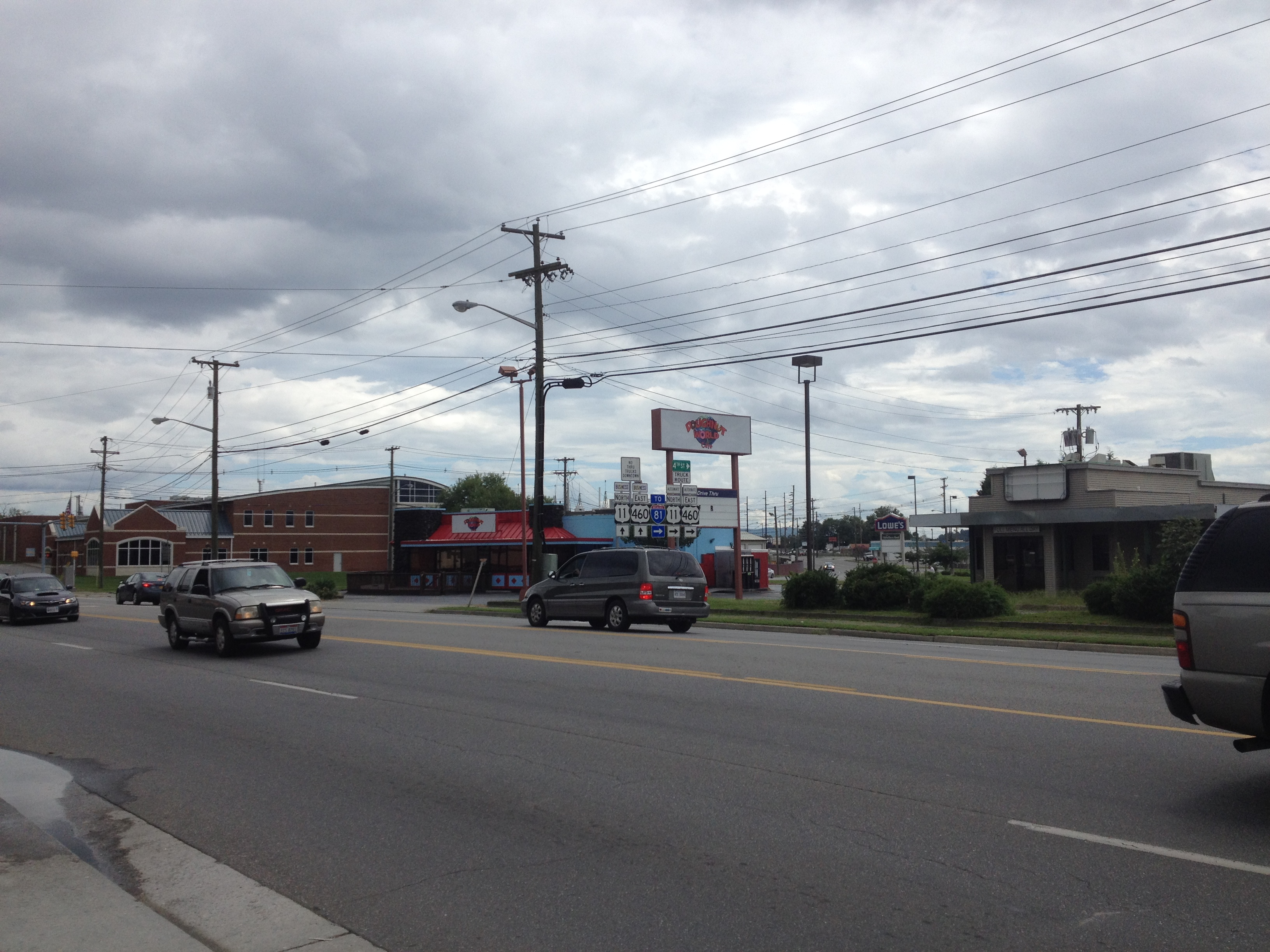 Northbound U.S. Route 11/eastbound U.S. Route 460 (Main Street) at the intersection with U.S. Route 11 Alternate/U.S. Route 460 Alternate (4th Street) in Salem, Virginia